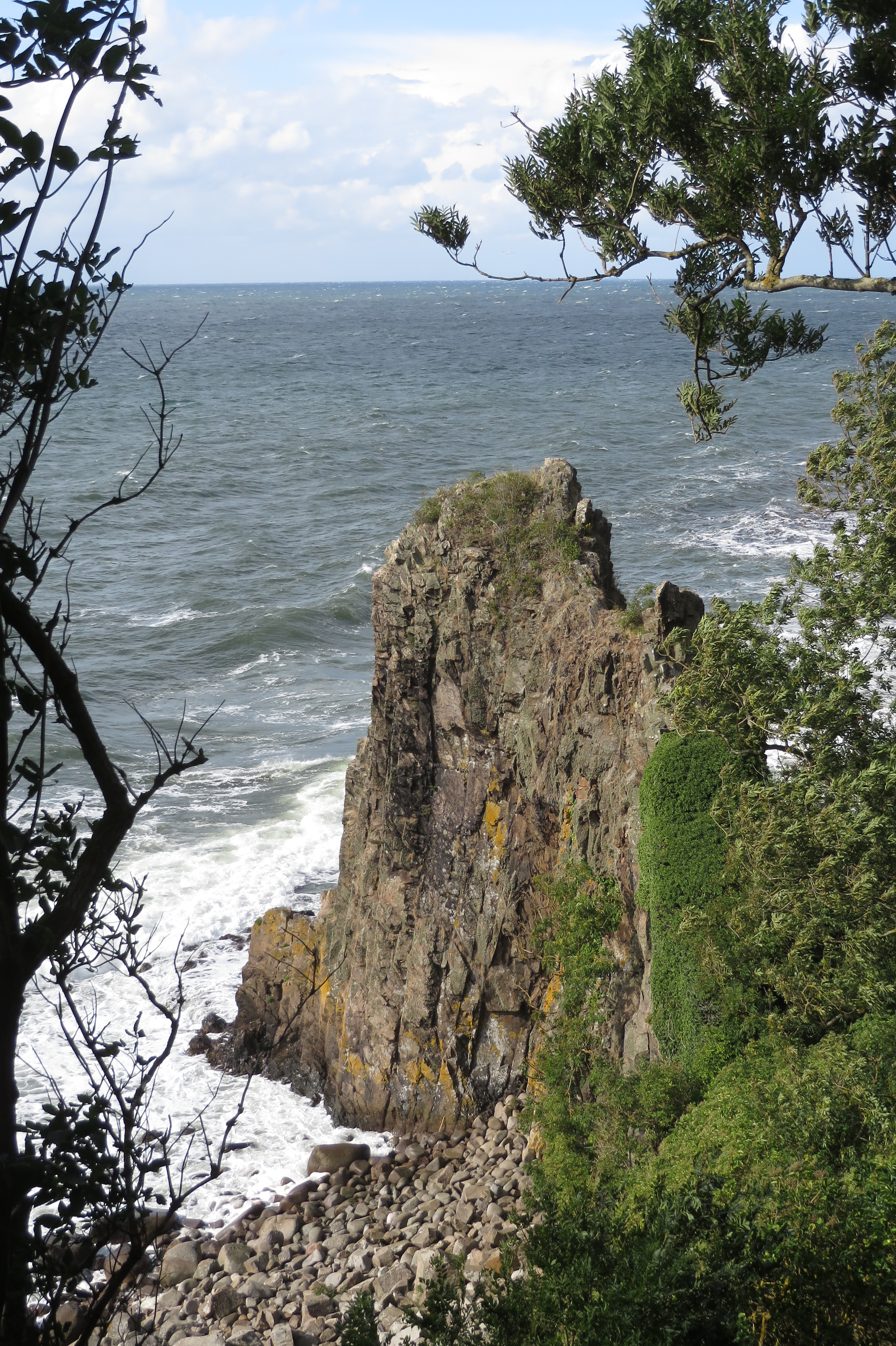 Jons Kapel, Bornholm